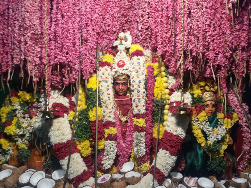 Thoothukudi, Sivagnanapuram, Arulmigu Bhadrakali Amman